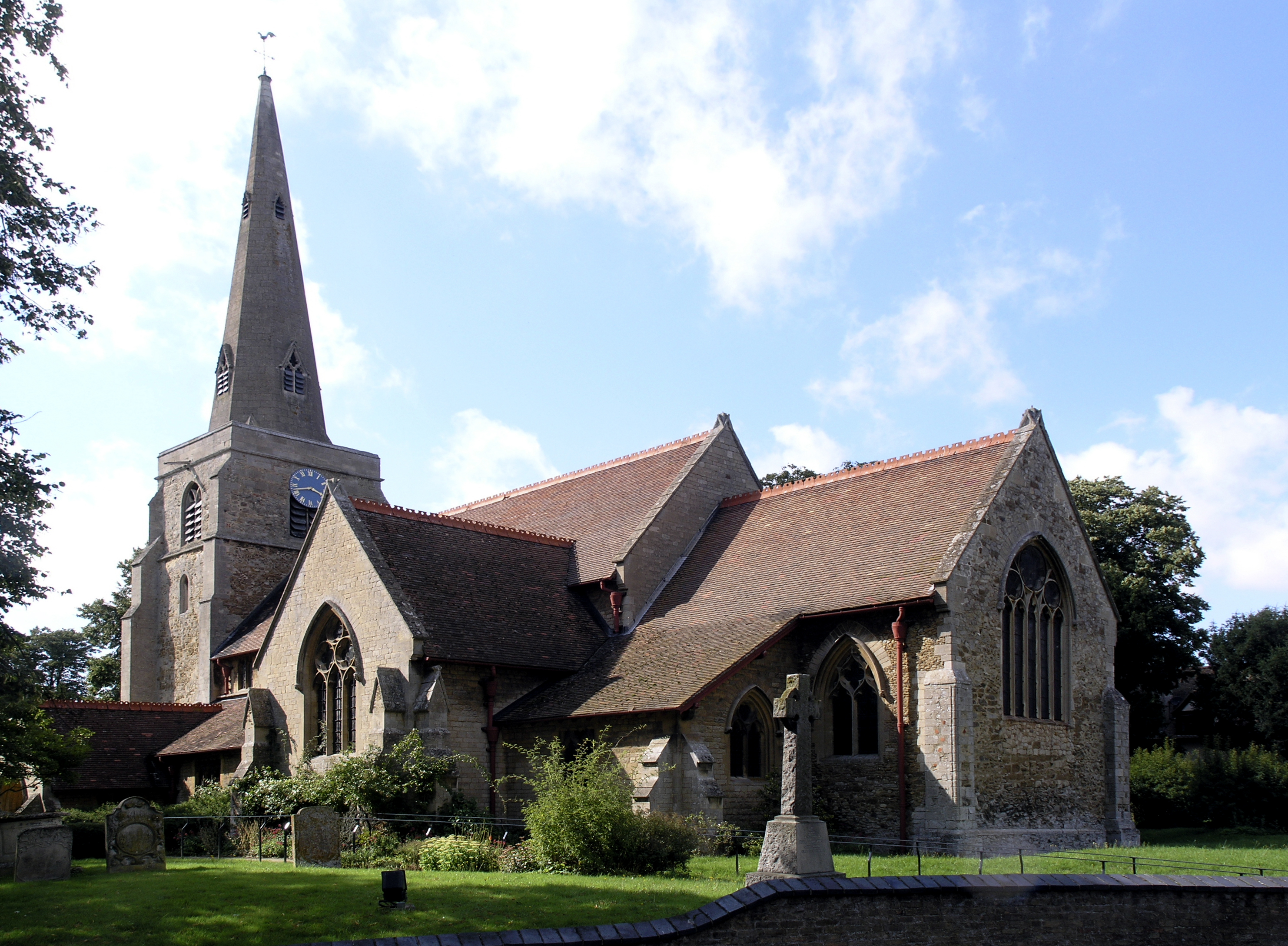 St James' Church, Stretham, taken from High Street, Stretham. The image has been artificially manipulated to align the verticals; other than that, no other part of the image has been altered in any way